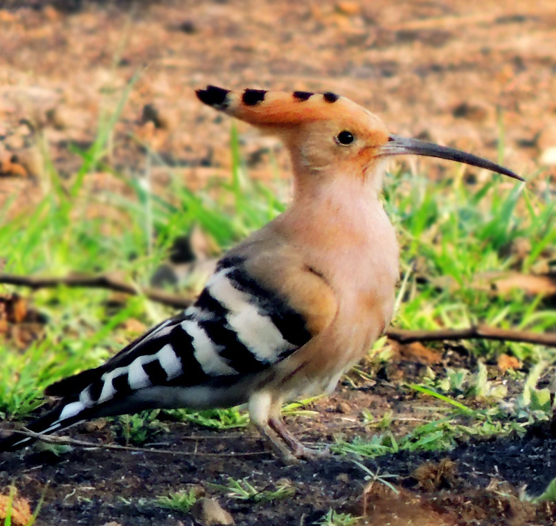 Common Hoopoe